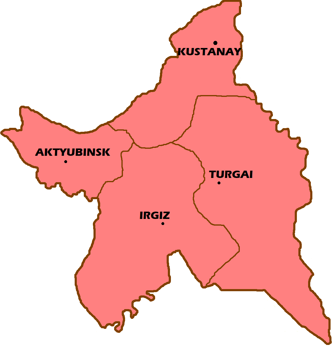 Turgai Oblast. Based on Файл:Turg obl.png